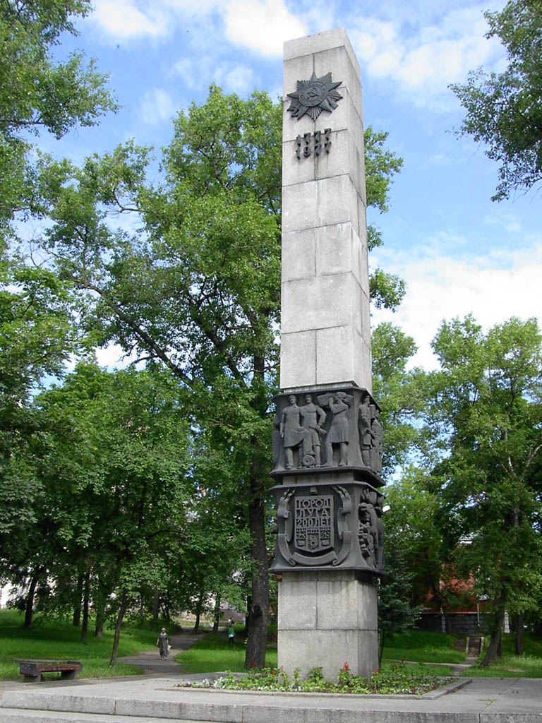 Momument in Luga